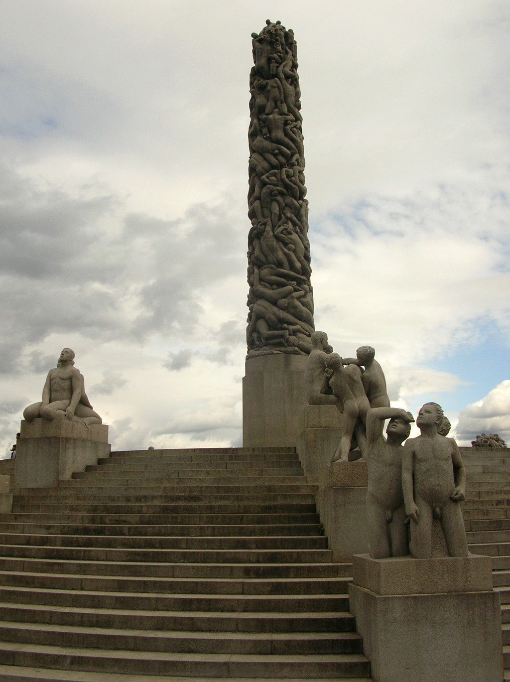 Monolith and sculptures in Frogner Park in Oslo (Norway)